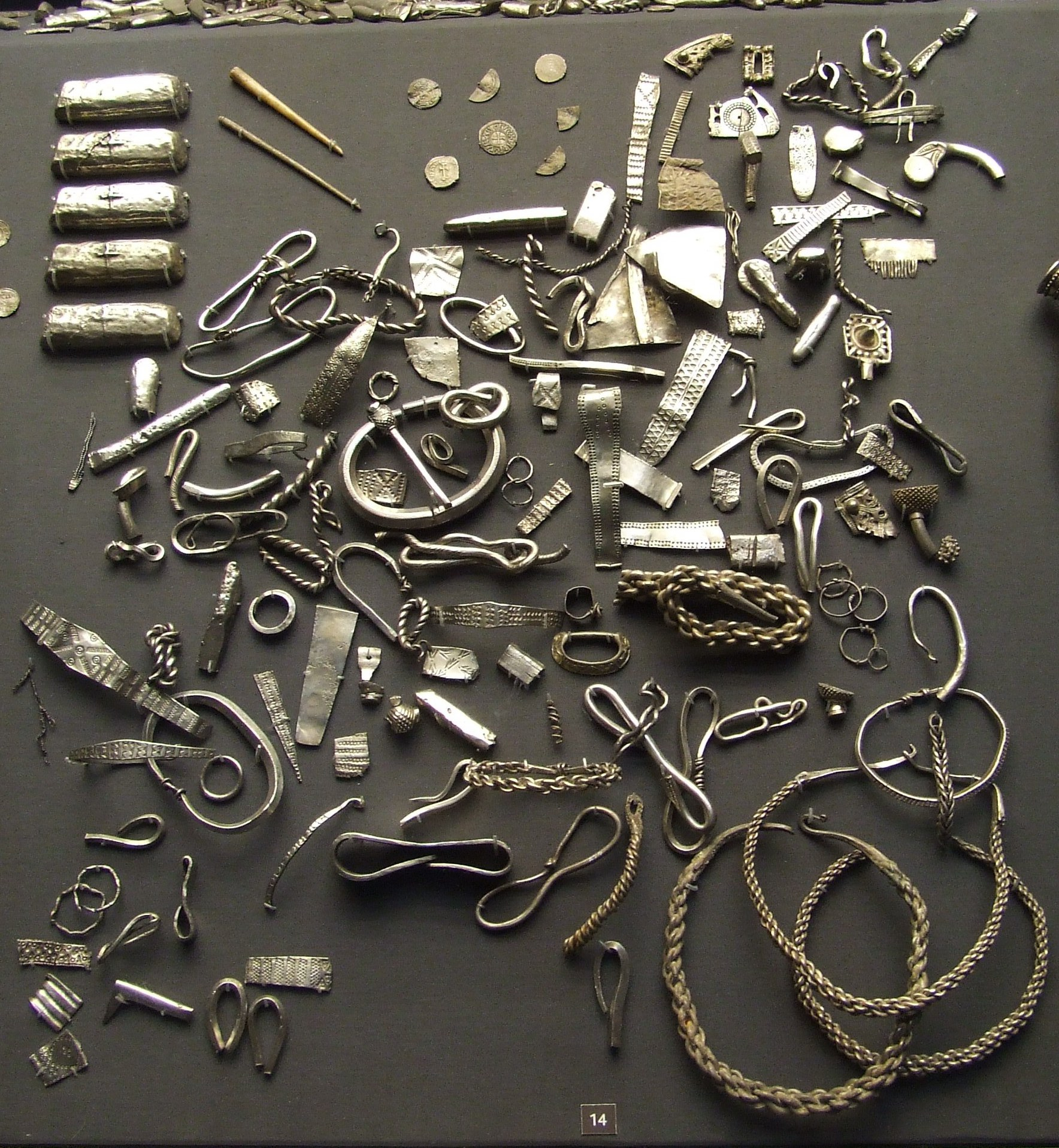 A selection of Viking silver from the Cuerdale hoard in the British Museum. Buried in around 905, found in 1840.